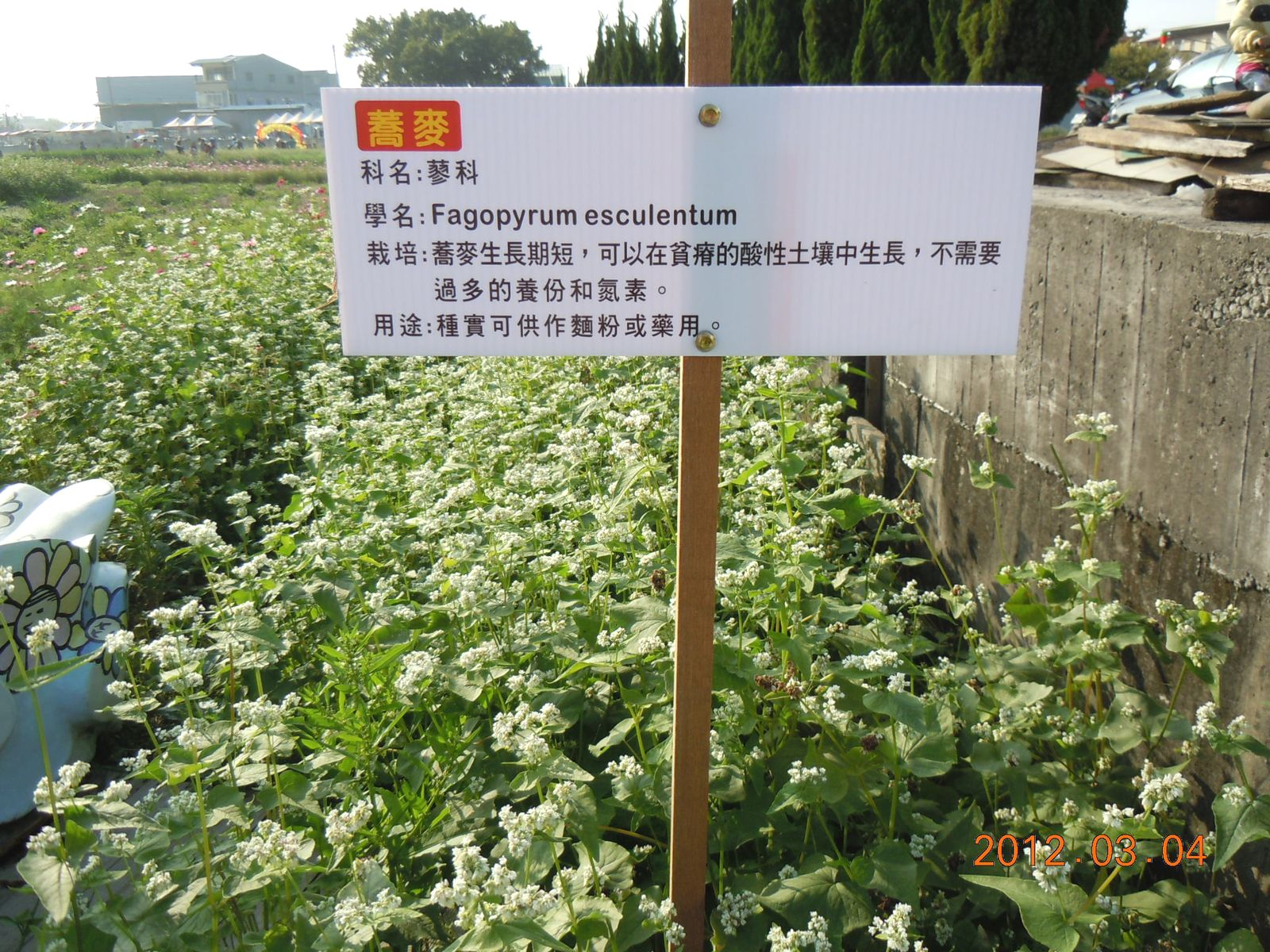 Fagopyrum esculentum in Daya District, Taichung.